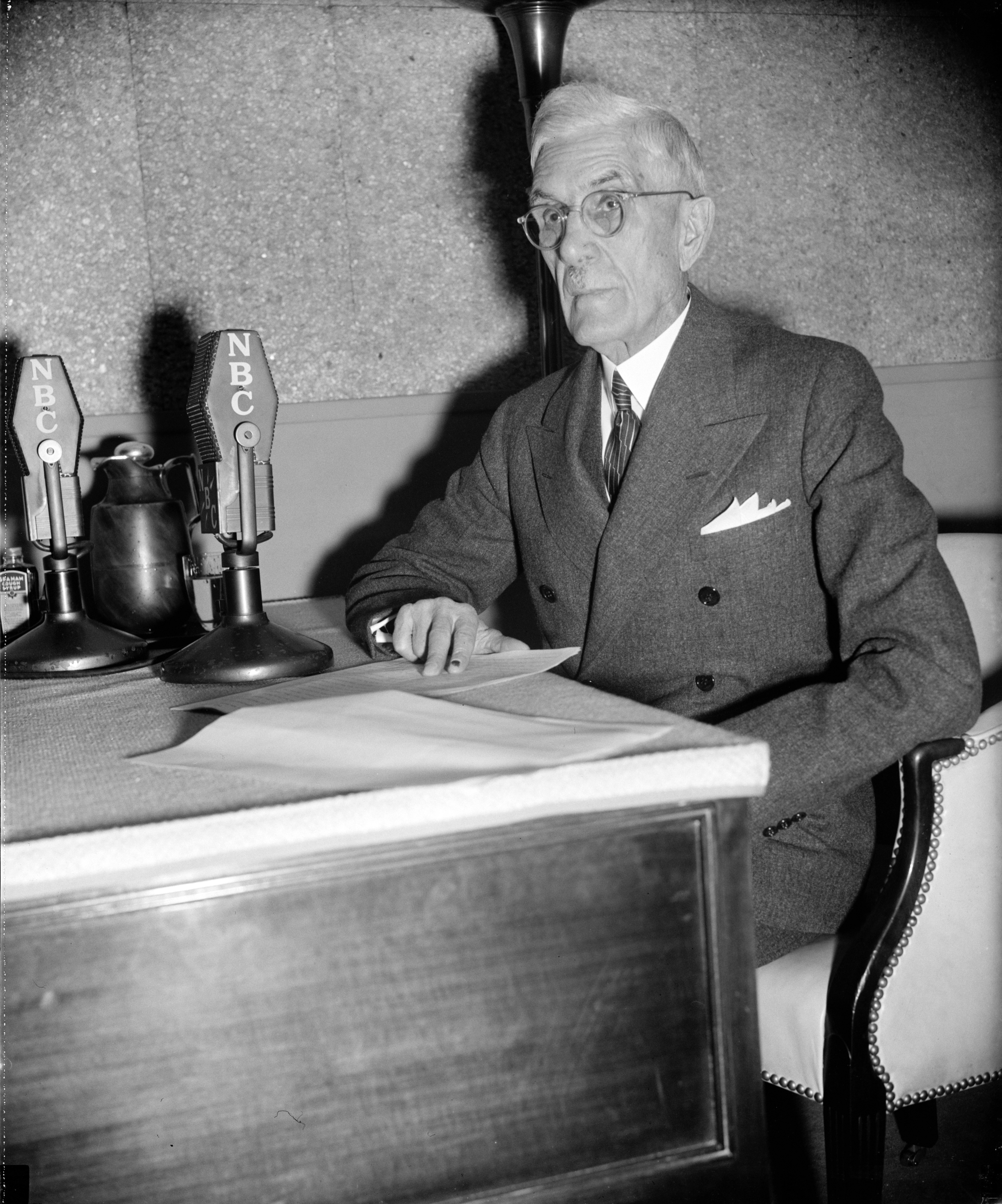 Dr. Francis Townsend, seated at desk, with microphones.